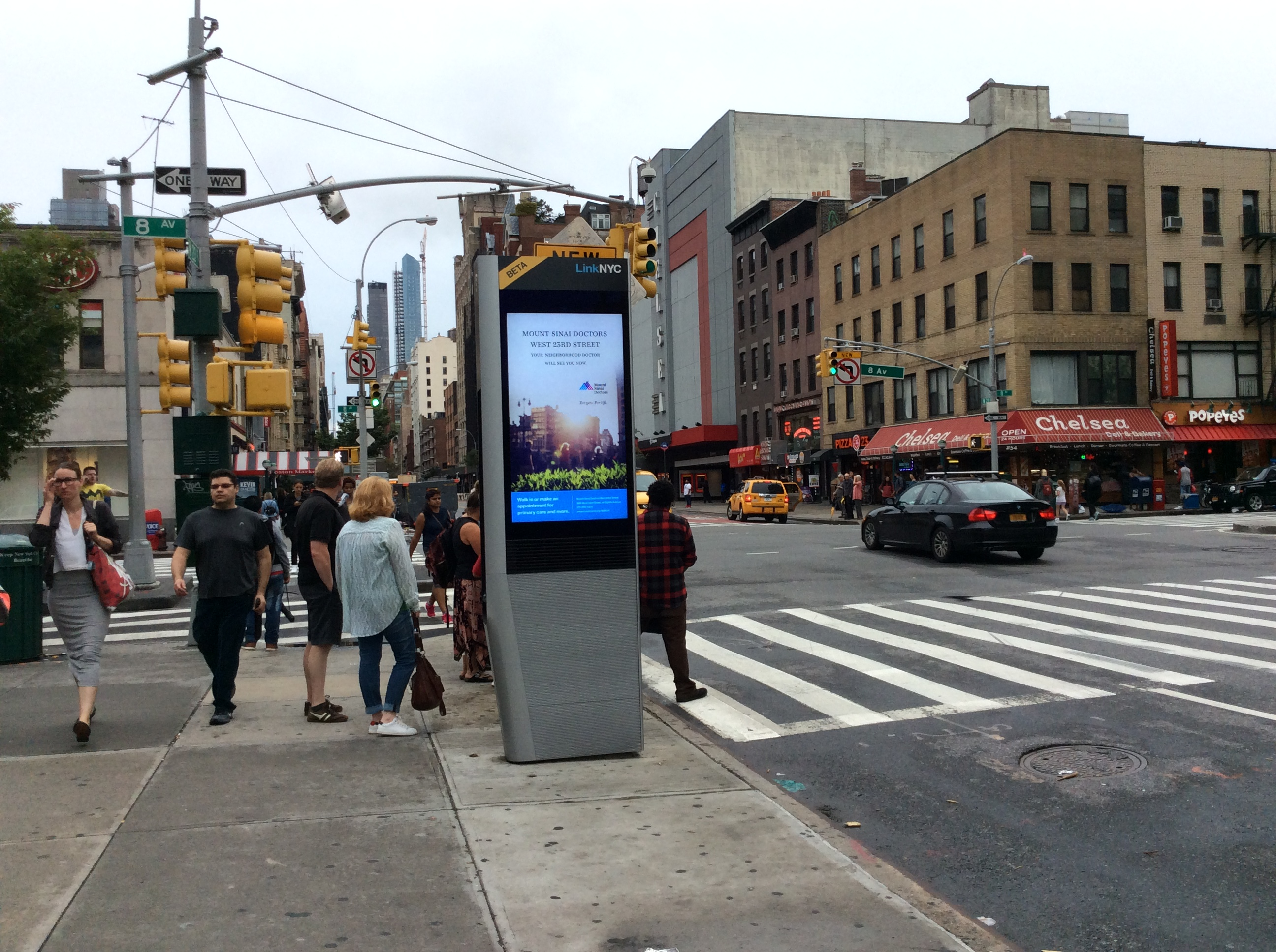 A LinkNYC kiosk at 23rd Street and 8th Avenue in Manhattan, New York City.